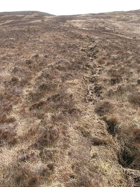 Deer path, Bealach Gaoth' Niar The north coast of Islay is sparsely populated,and few people pass this way now. The Bealach Gaoth' Niar is still a busy route though, deer usually find the easiest way.